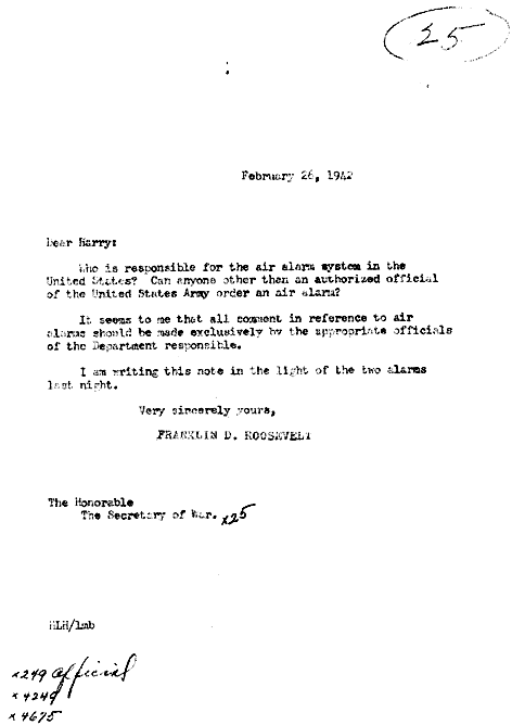 A memorandum between president Roosevelt and Henry L. Stimson, secretary of War, regarding the so called "Battle of Los Angeles".